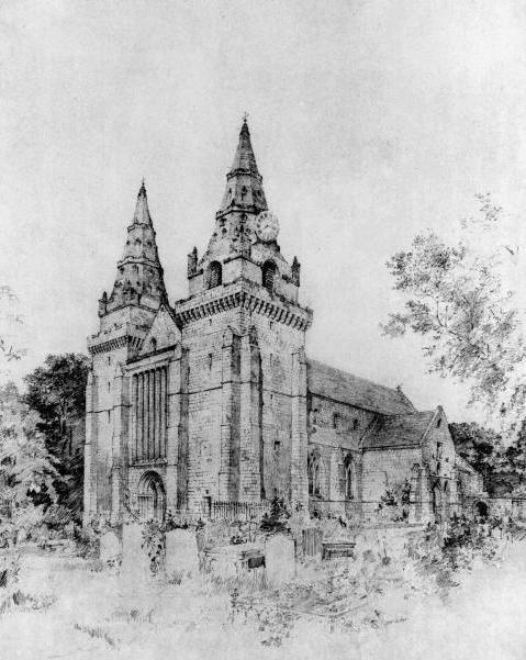 19th century depiction of St Machar's Cathedral